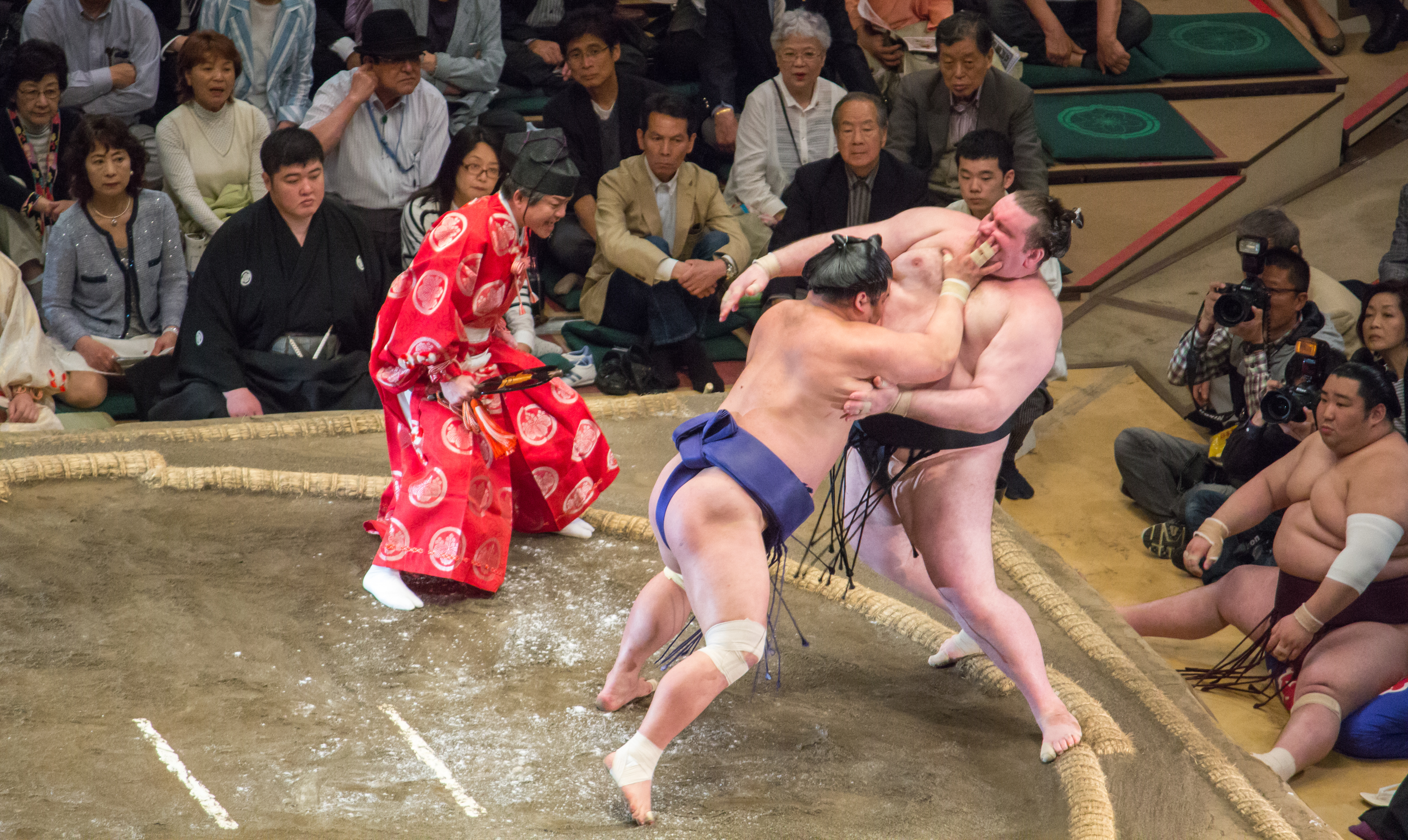 Myōgiryū Yasunari (left) vs. Gagamaru at the 2014 May Grand Sumo Tournament in Tokyo, Japan. Canon EOS 60D + EF-S 55-250mm F4-5.6 IS